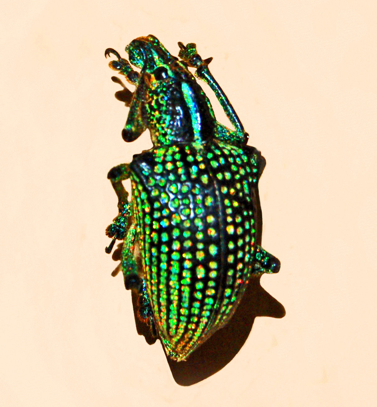 Entimus imperialis from Brazil